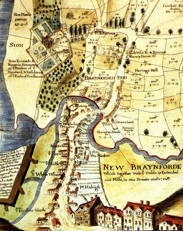 Map of Brentford (now district of London)